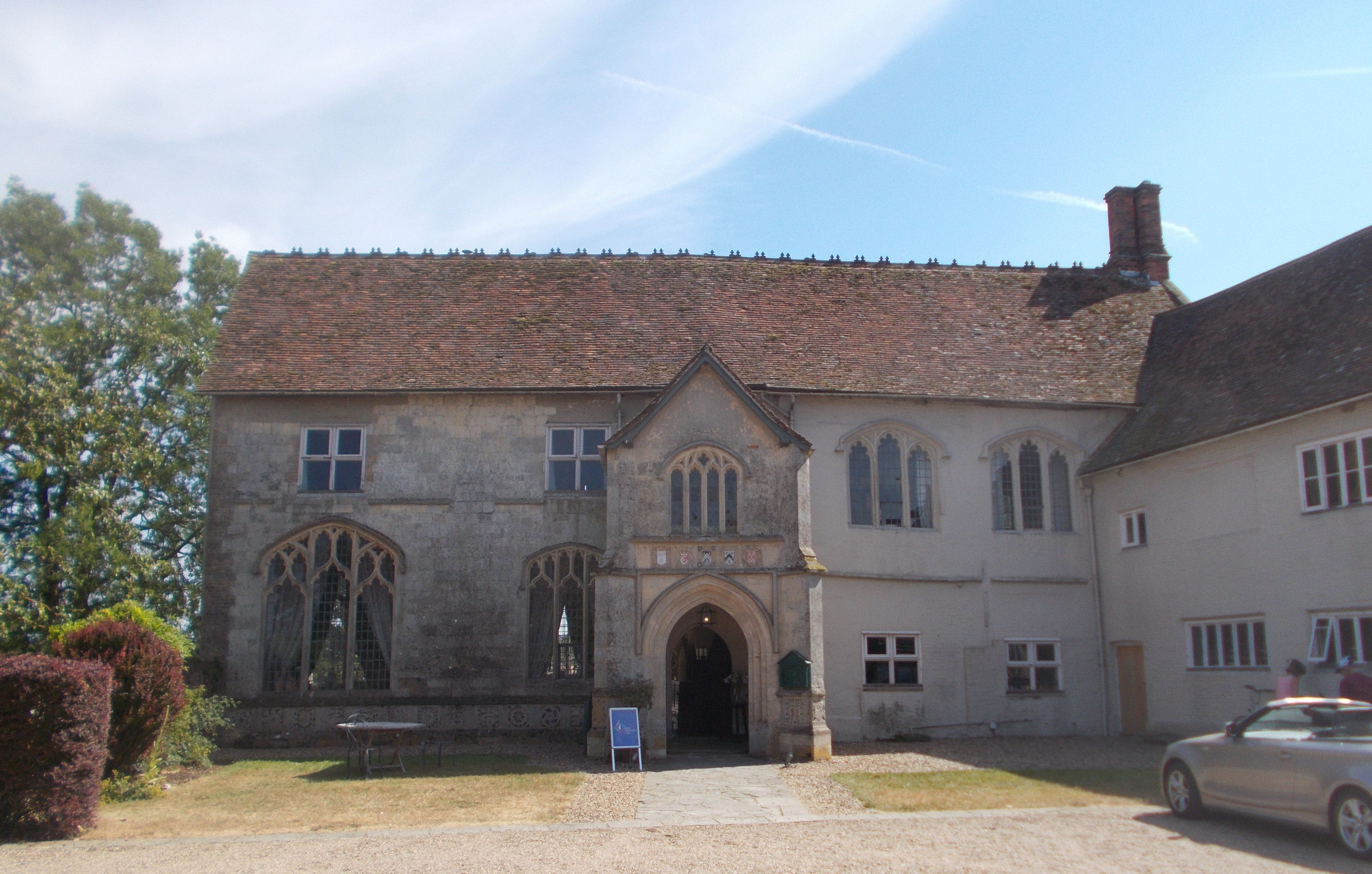 North front of St Peter's Hall at St Peter, South Elmham, Suffolk, showing re-used gothic masonry